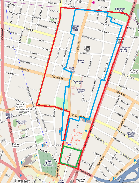 Boundary of Prospect Hill neighborhood planning area (red) and approximate boundary of Prospect Hill Historic District (blue). Also shown is approximate boundary for Hillhouse Avenue Historic District (green). Actual edges of historic districts follow irregularities of individual property lines. Not shown is boundary for Whitney Avenue Historic District which includes properties within right edge of Prospect Hill planning area. Data from City of New Haven City Plan Department. Imagery from OpenStreetMap.